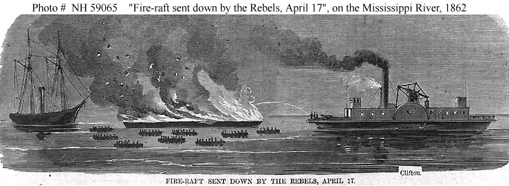 "Fire-raft Sent Down by the Rebels, April 17". Engraving of USS Clifton playing a fire hose on a Confederate fire raft as it drifted past Union ships on the lower Mississippi River, 17 April 1862